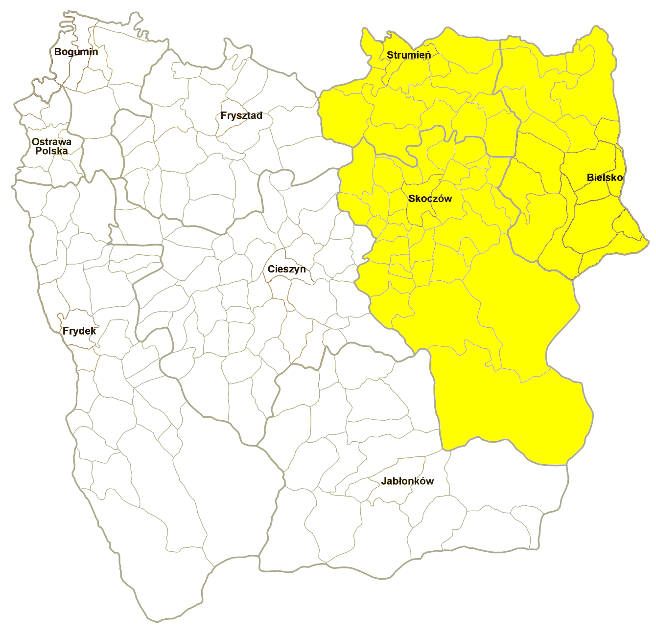 Teschen Political County in 1910 in eastern part of Austrian Silesia (Cieszyn Silesia)